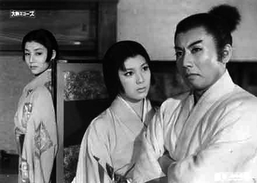 Studio still for 1959 Japanese movie The Early Days of Nobunaga (若き日の信長 Wakaki-hi no Nobunaga), featuring (l-r) Kyōko Aoyama (青山京子, 1935– ) as Kohagi (小萩), Atsuko Kindaichi (金田一敦子, ???– ) as Yayoi (弥生) and Raizō Ichikawa VIII (八代目 市川雷蔵, 1931–1969) as Kozuke-no-Suke Nobunaga (上総介信長).